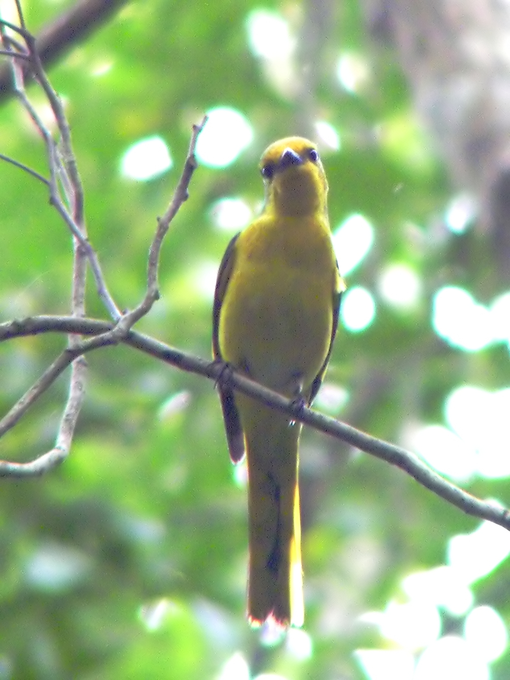 Scarlet Minivet Pericrocotus speciosus, Hong Kong